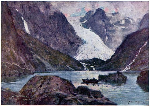 (Removed after reusableart request.)